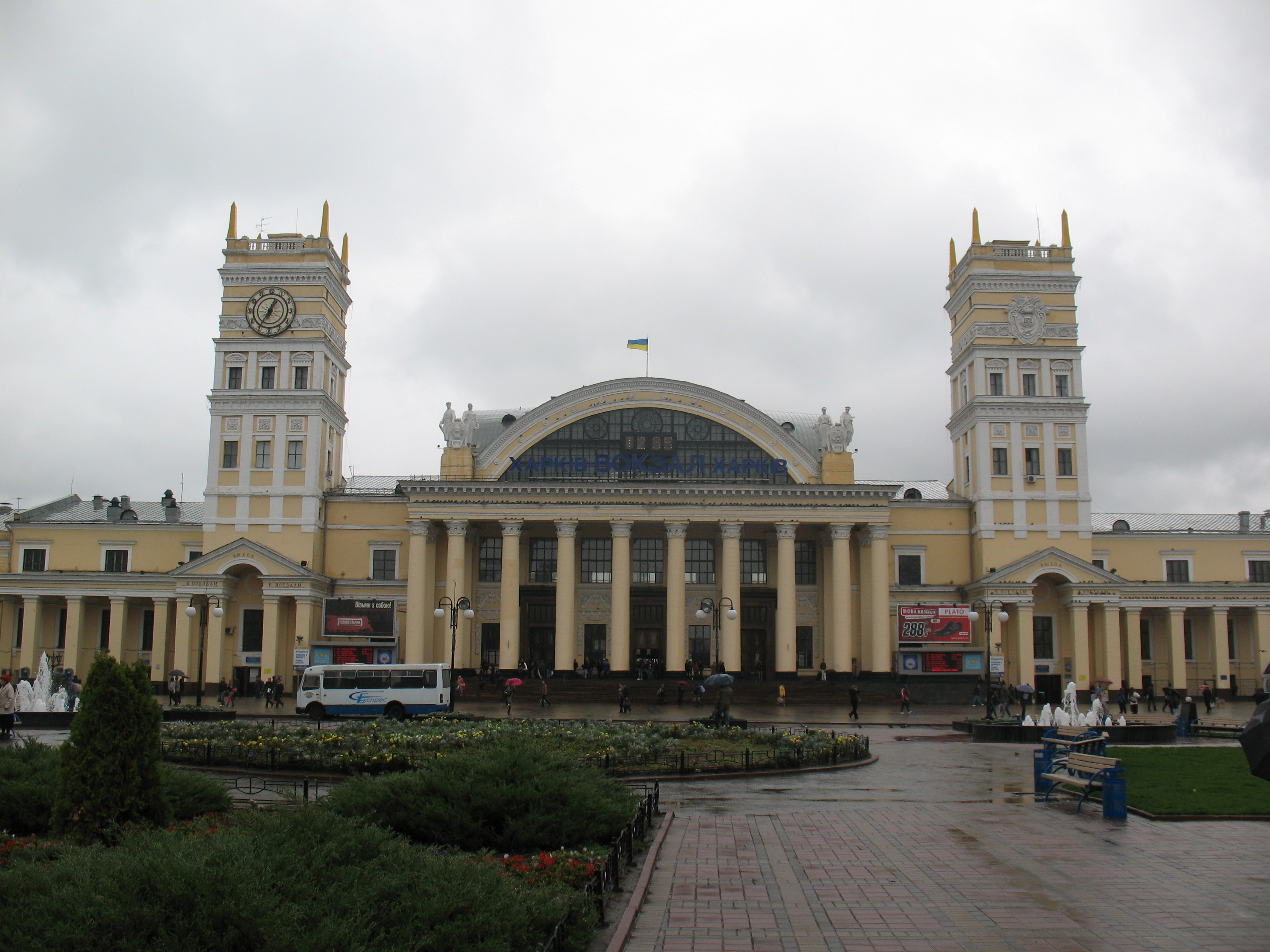 Central (South) Railway Station Building in Kharkov in the rain.